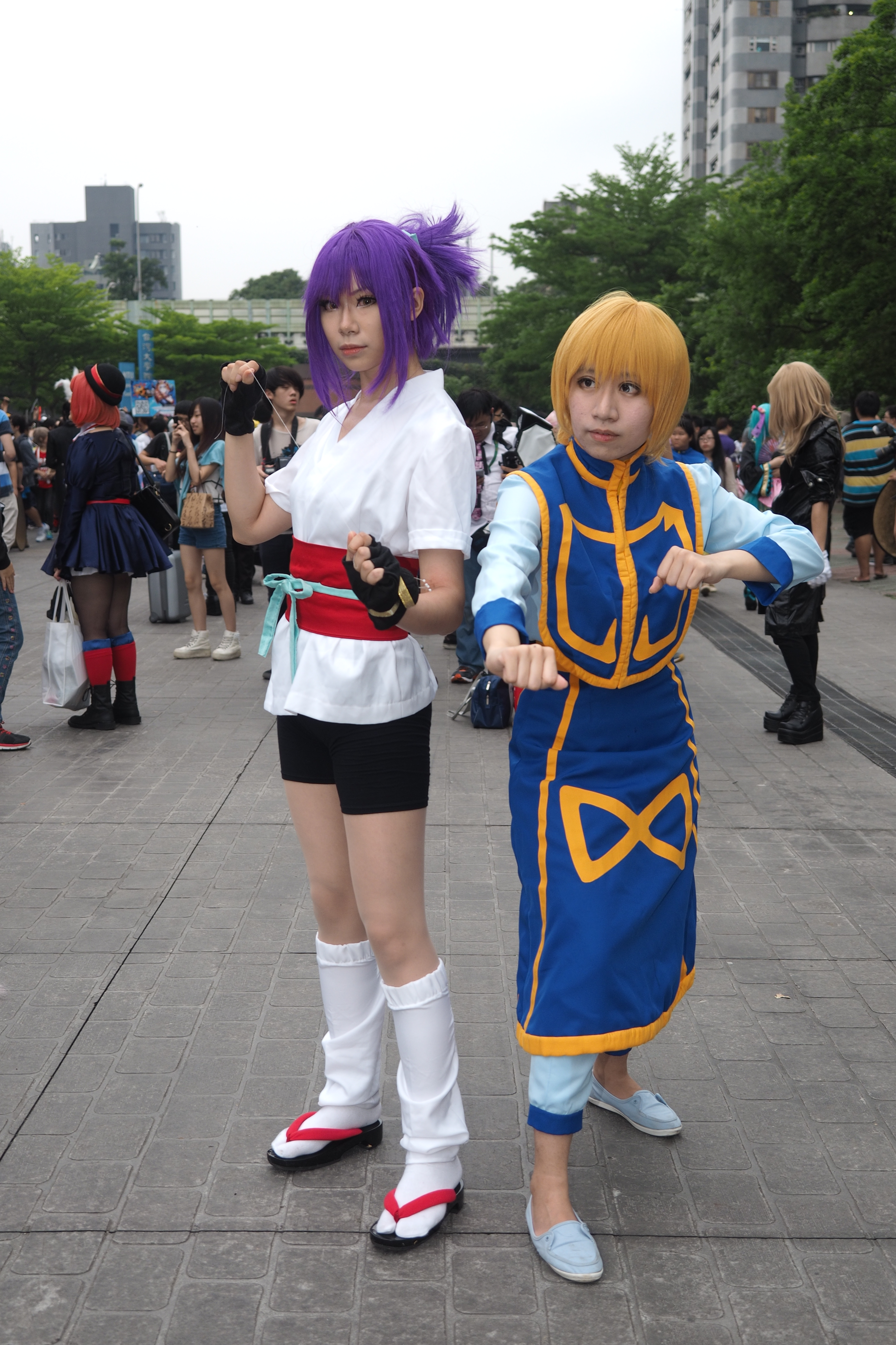 Petit Fancy 20 Petit Fancy 20